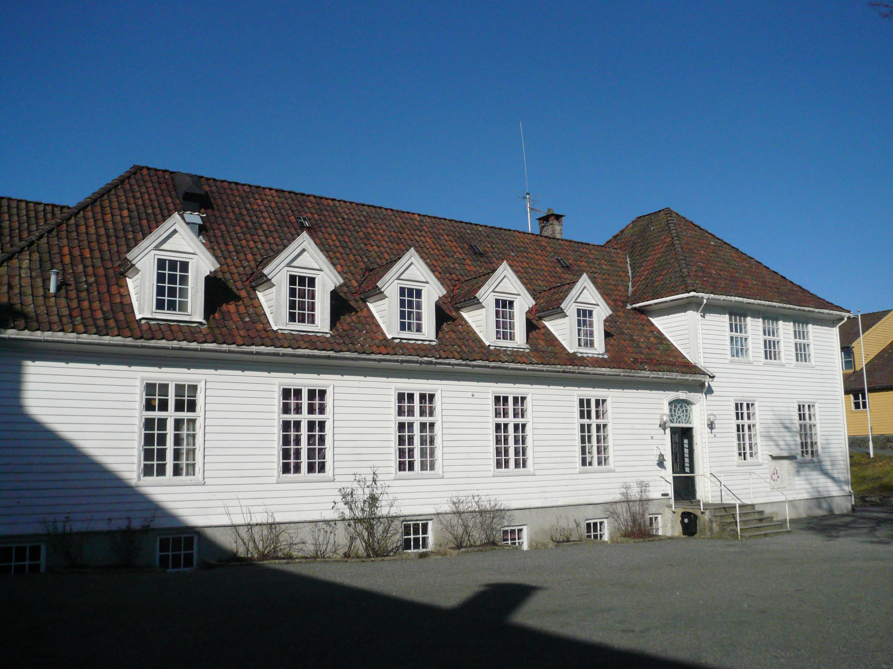 Store Milde, West wing by Ole Landmark (1917).